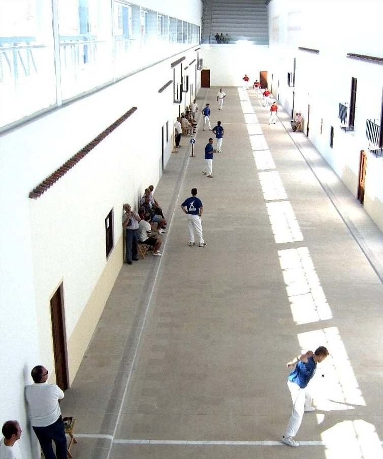 Llargues serving style.